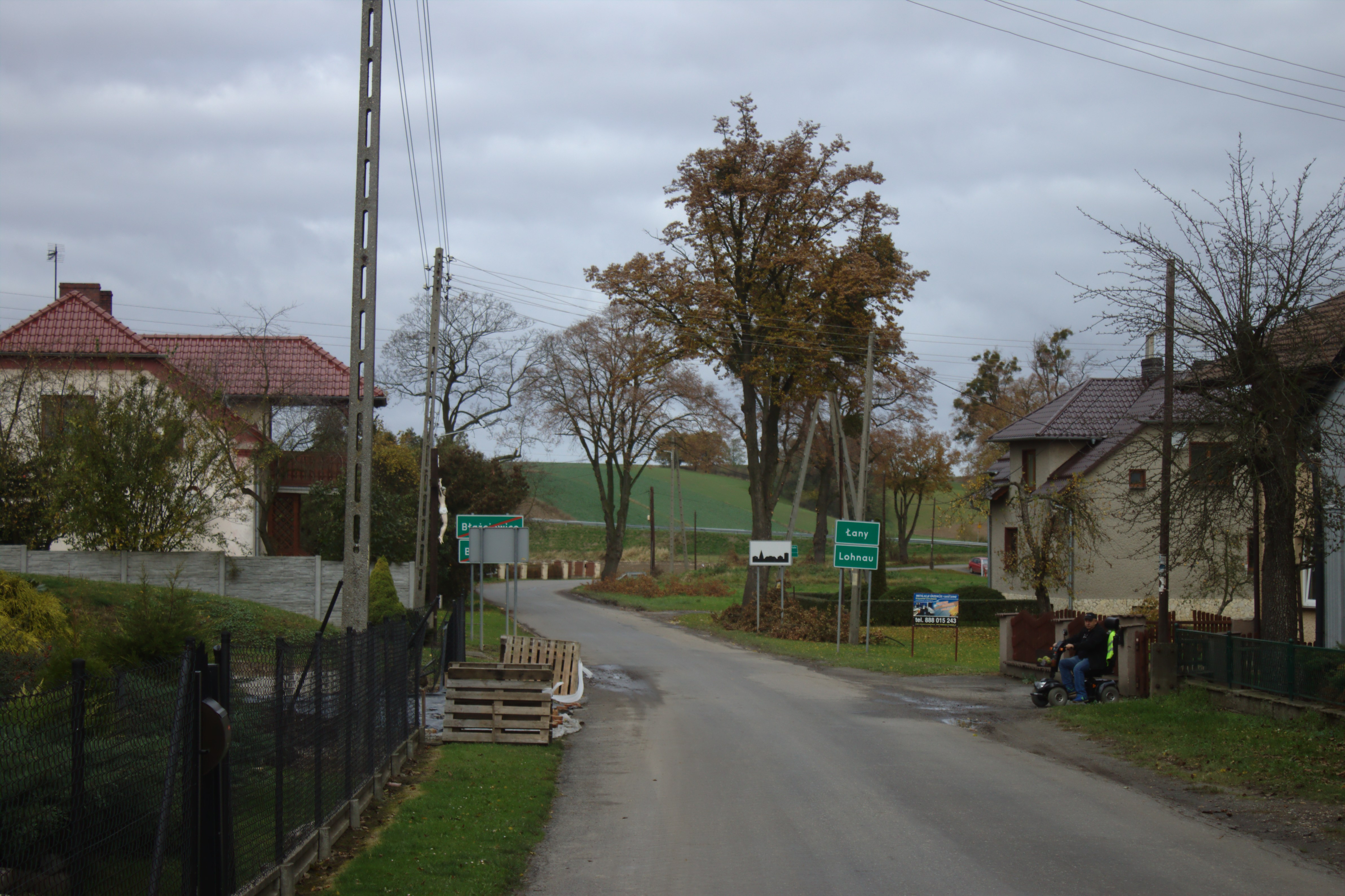 Northern edge of the village of Błażejowice, Poland